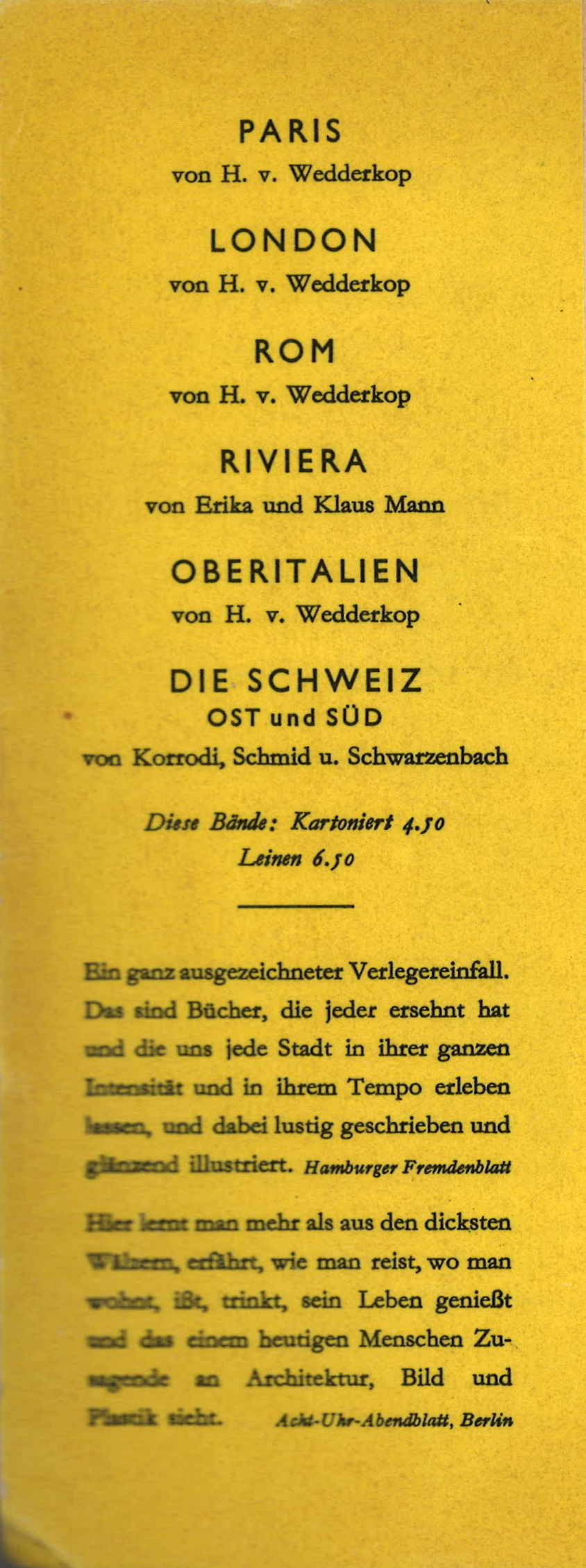 Cover of the book 'Berlinerisch' by Ostwald (1932) with advertizing for titles of the series 'Was nicht im Baedeker steht'